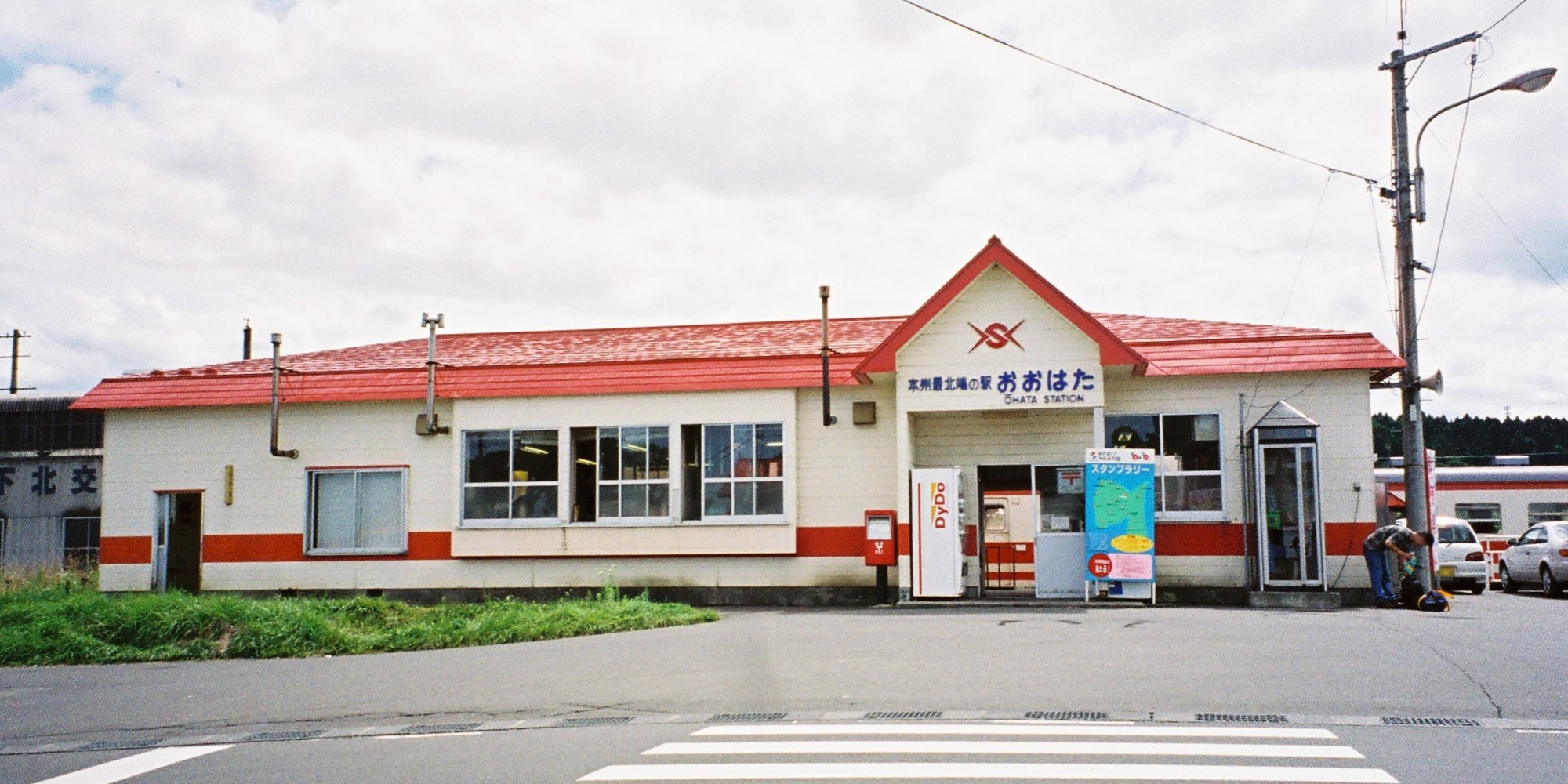 Shimokita Koutu Ohata Station.